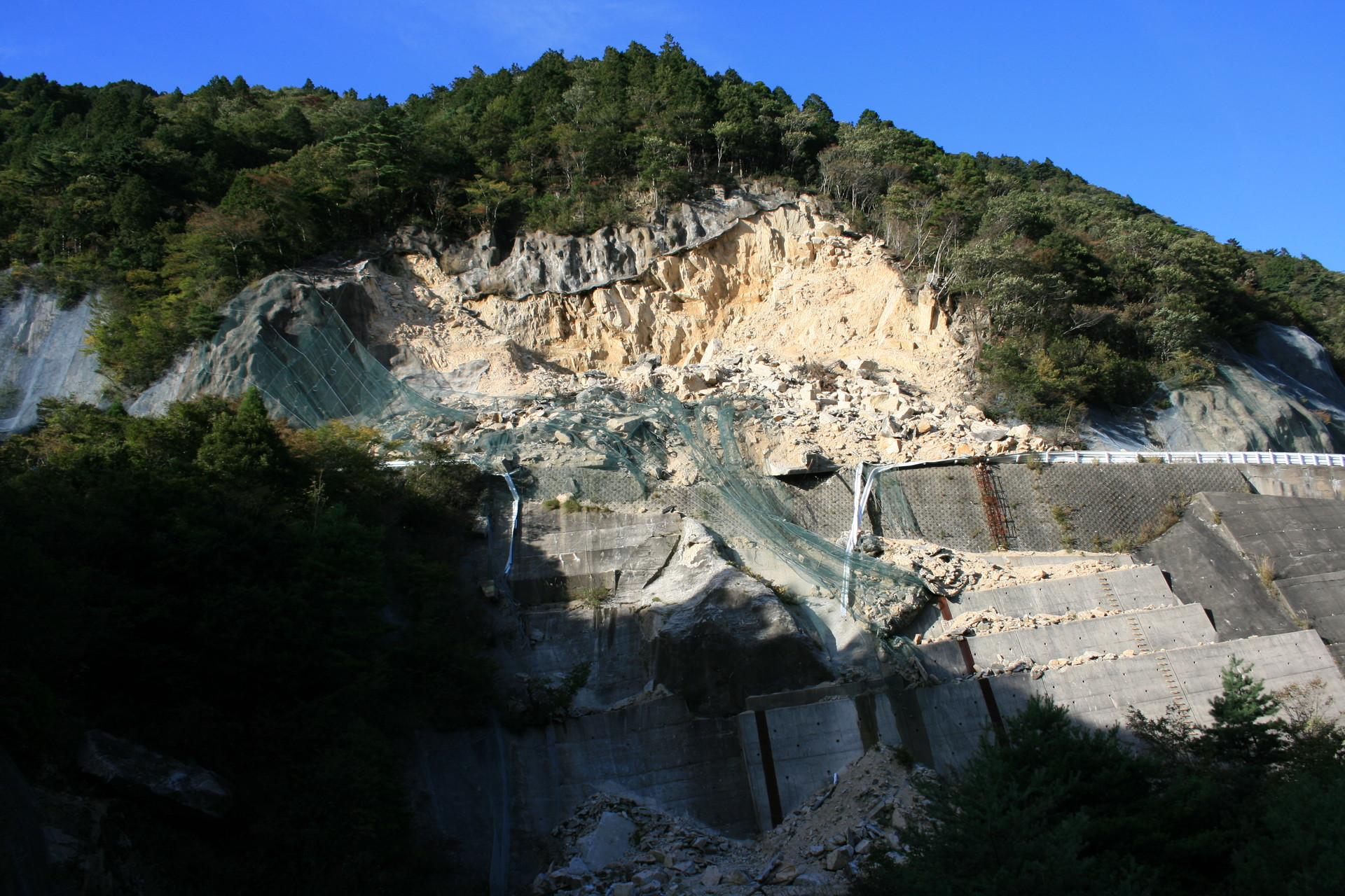 Mudslide on R477 of Japan